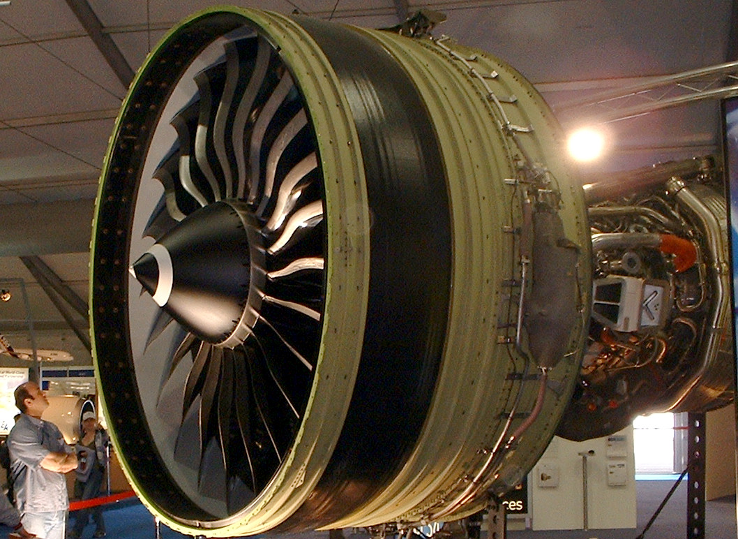 General Electric GE90-115B at the 2004 Farnborough Air Show.